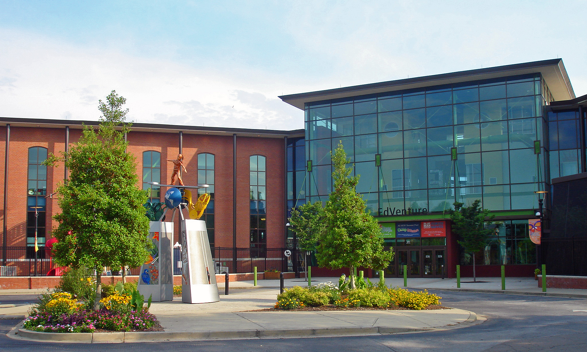 EdVenture Children's Museum, downtown Columbia, South Carolina, USA